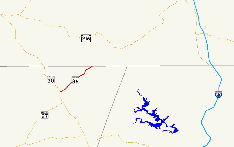 Map of Maryland Route 86